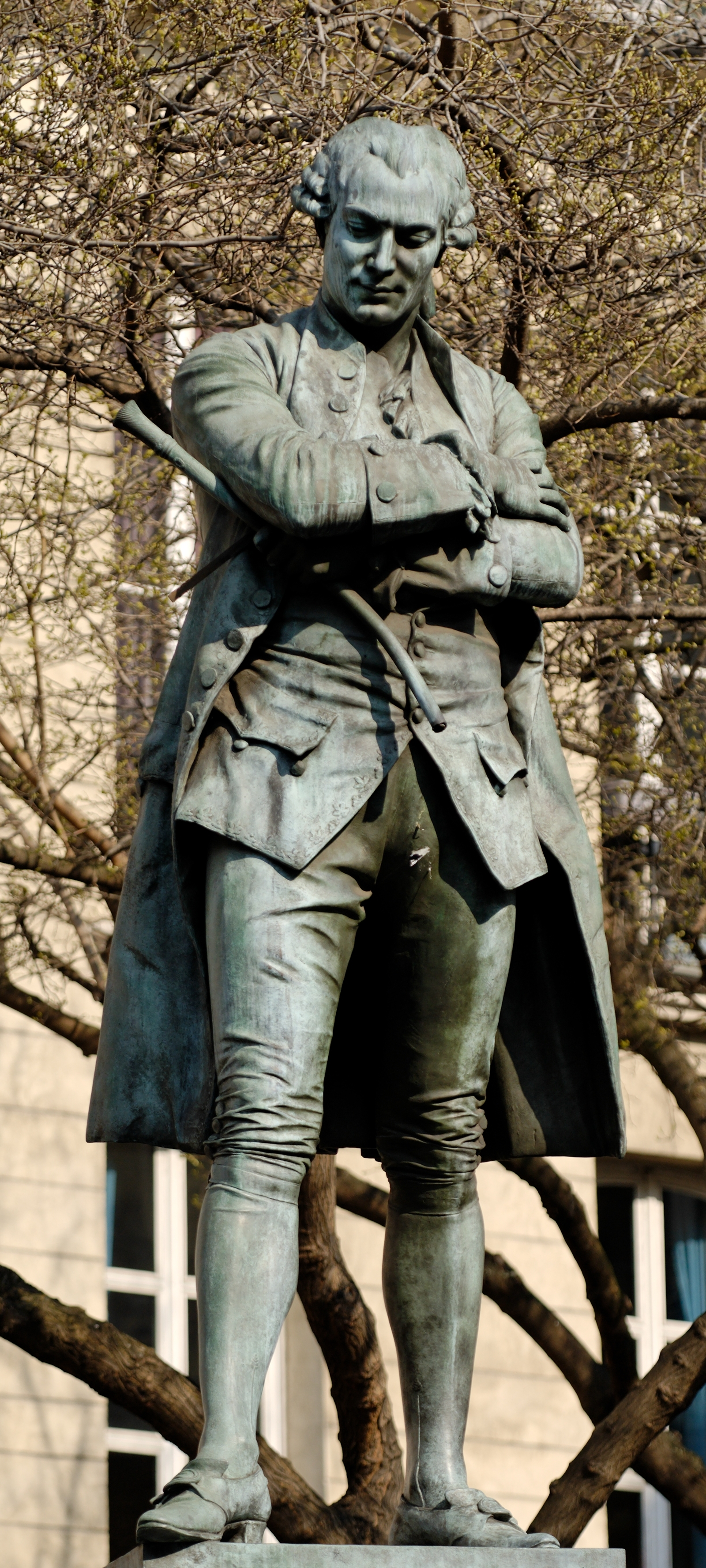 Monument to Pierre Augustin Caron de Beaumarchais by Louis Clausade (French, 1865–1899). Bronze, 1895. At the crossroad of the Rue Saint-Antoine and the Rue des Tournelles, 4th arrondissement of Paris.